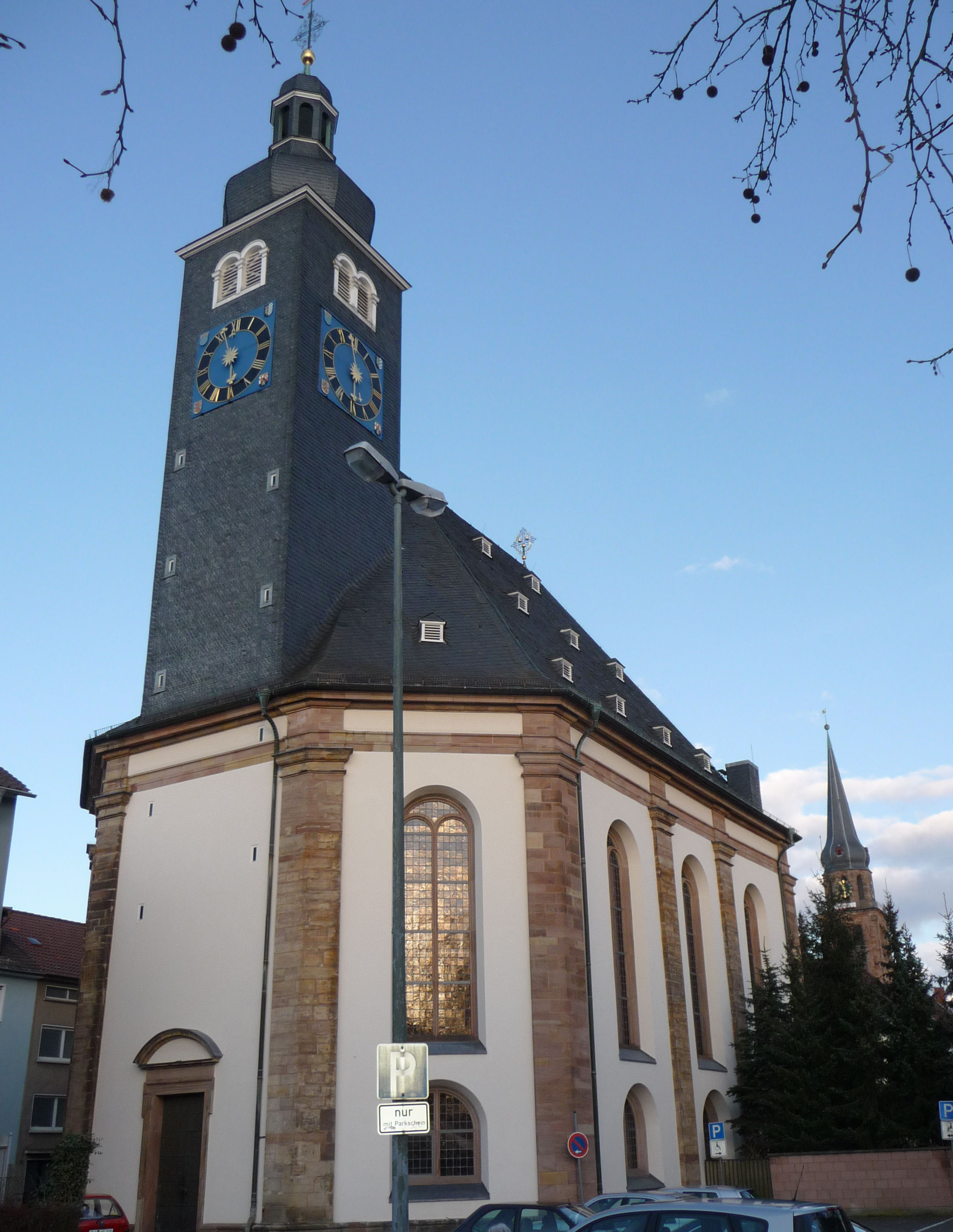 church building in Zweibrücken, Germany